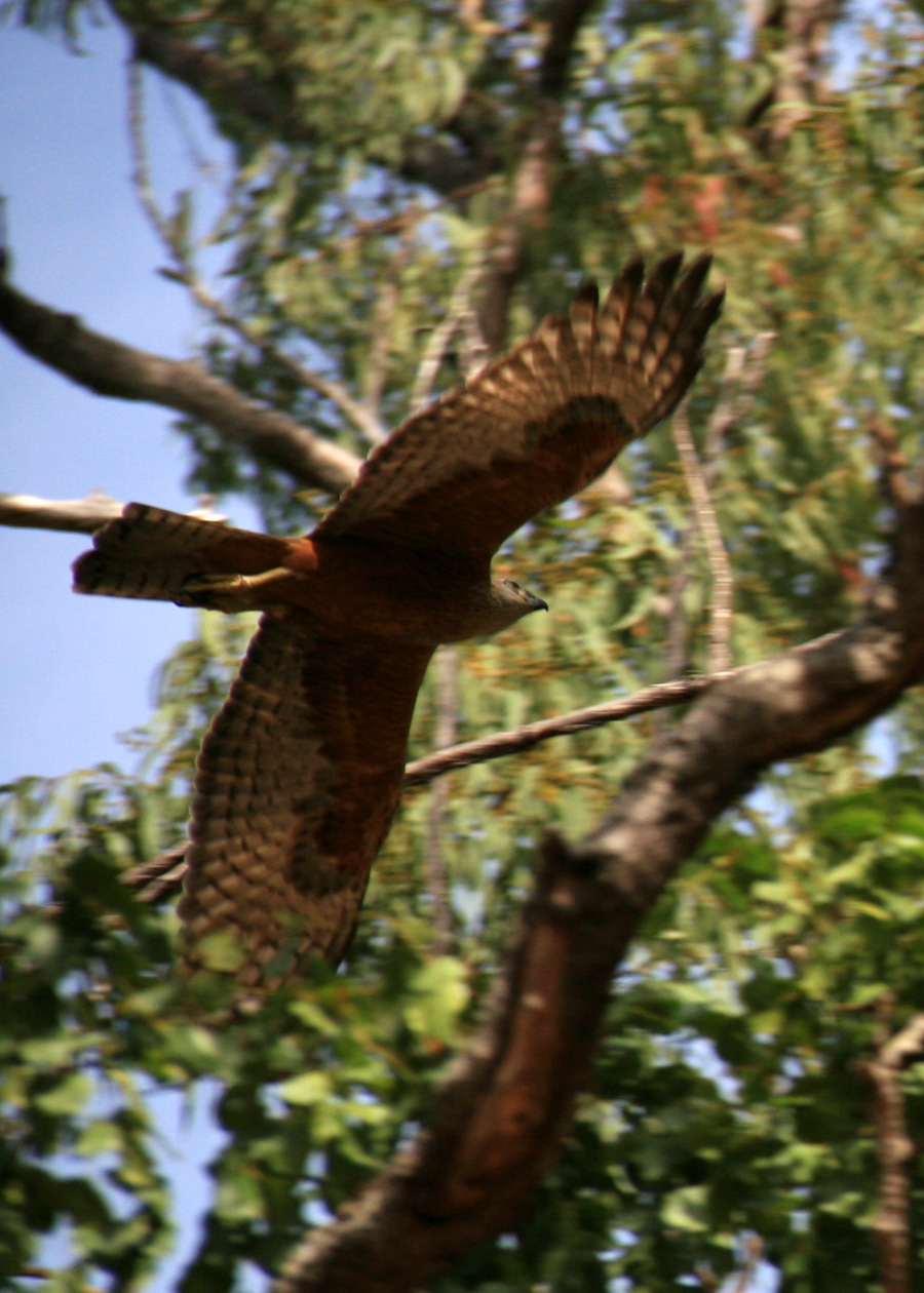 A male Red Goshawk (Erythrotriorchis radiatus) in flight photographed east of Musgrave Station on Cape York Peninsula in June 2012